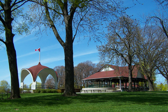 Taken by User:Trappy, April 2006. This is a photograph of Montebello Park, in downtown St. Catharines, Ontario. I personally took this photo and release it to the public domain.